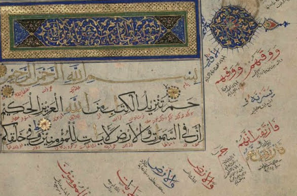 The starting fragment of Surah al-Jathiyah in a Timurid copy of the Quran, likely produced in 15th century northern India